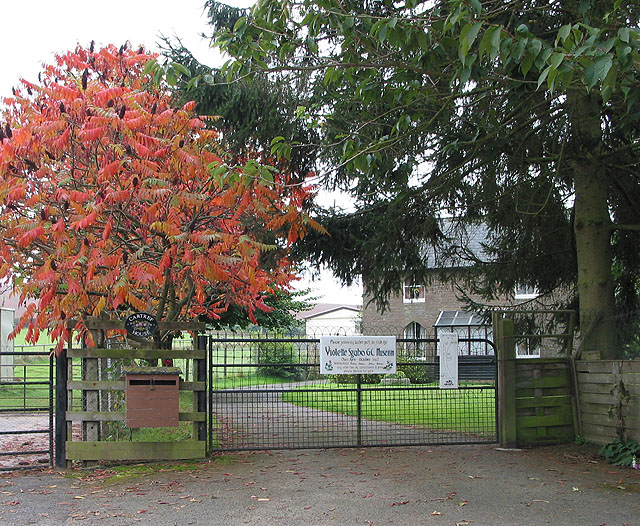 Violette Szabo G.C. Museum Entrance. Violette Szabo was a World War II heroine who entered occupied France as a secret agent working for the Special Operations Executive. She was captured and incarcerated in Ravensbruck and eventually shot by the Gestapo in 1945. She was posthumously awarded the George Cross in 1946.